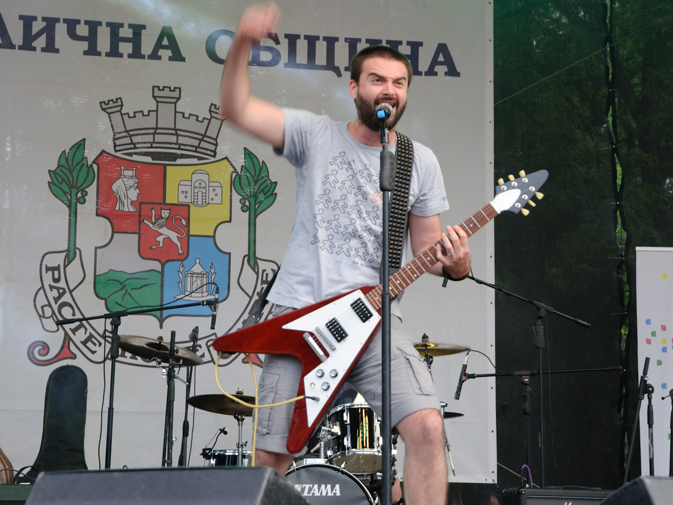 The Bulgarian rock musician Toma at "Flower for Gosho Fest" 2013, South park, Sofia.